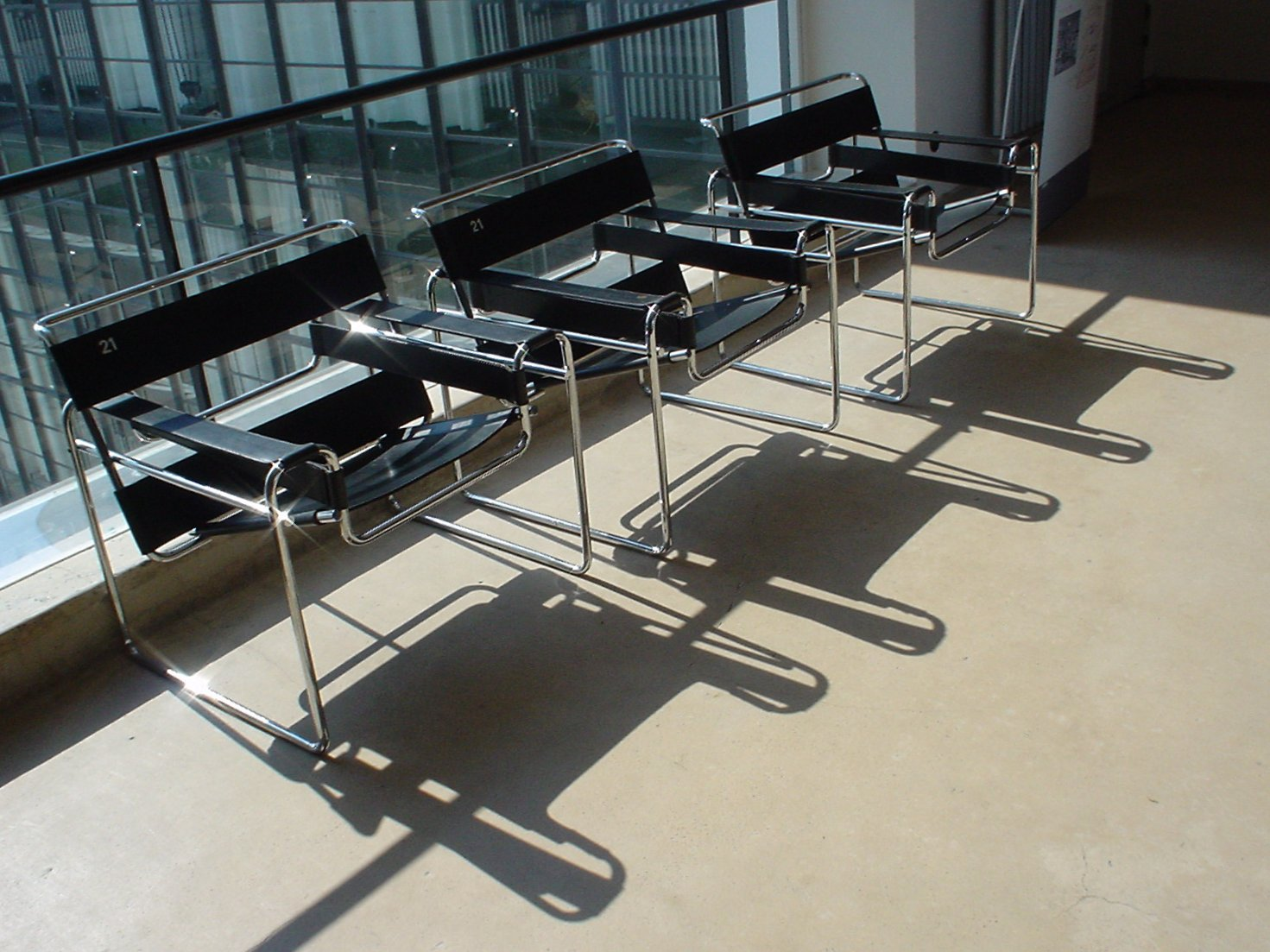 Wassily Chair also known as the Model B3 chair designed by Marcel Breuer in 1925-1926 at the Bauhaus, in Dessau, Germany.